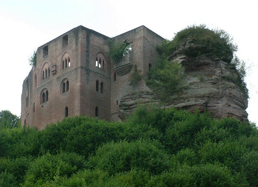 View from the East of the ruins of Castle Frankenstein in Pfalz, Germany.